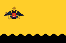 Flag of city Novorossiysk (Russia).